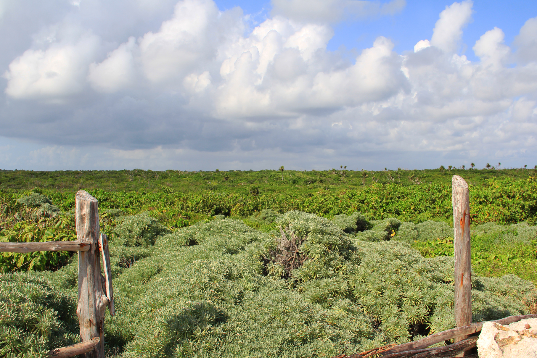 View of the Flora of Cozumel